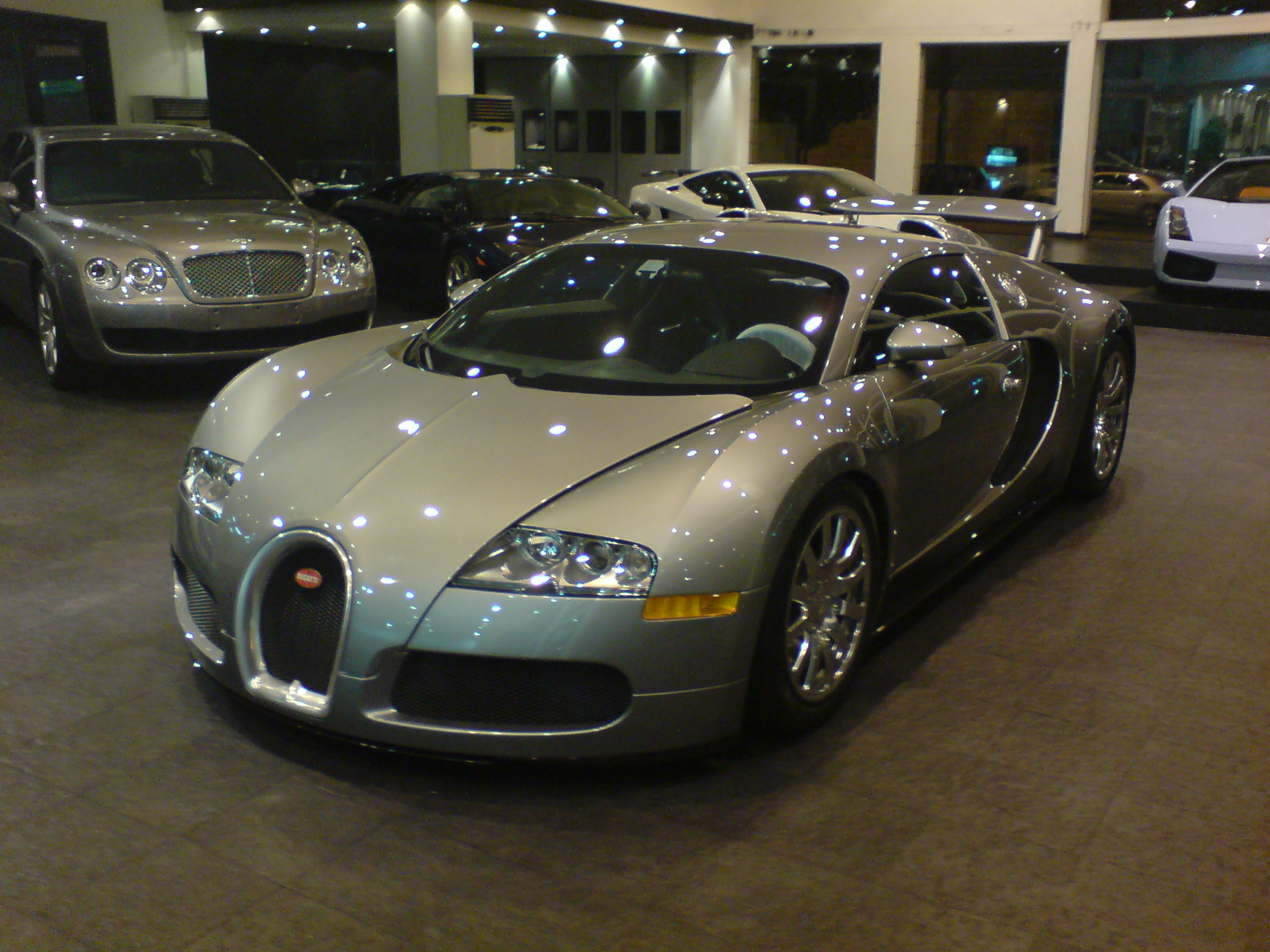 Bugatti Veyron 2008